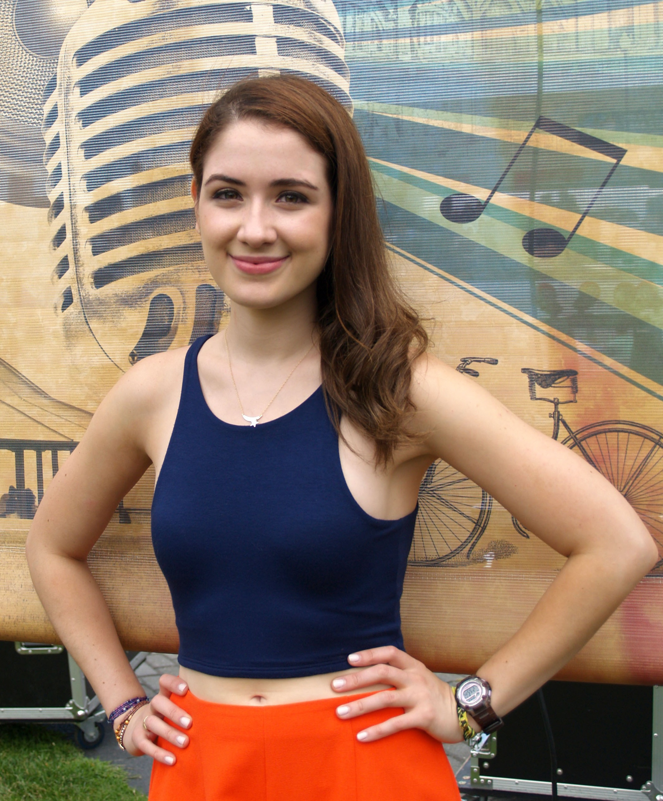 Actress/singer Allison Strong at the August 23, 2014 Lackawanna Music Festival at Pier A in Hoboken, New Jersey. This photo was created by Luigi Novi. It is not in the public domain, and use of this file outside of the licensing terms is a copyright violation.